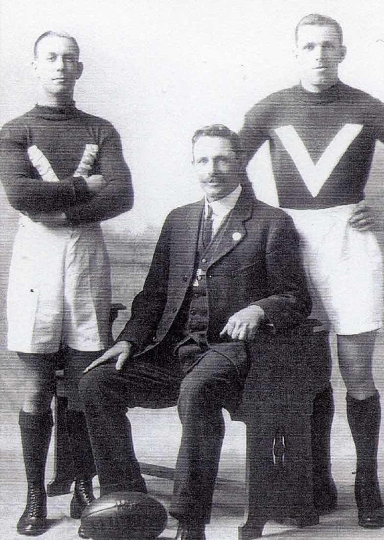 Cliff and Bert Rankin standing with their father, Edwin 'Teddy' Rankin on the occasion of them being selected to play in the Victorian State football team. All three men were Geelong footballers.